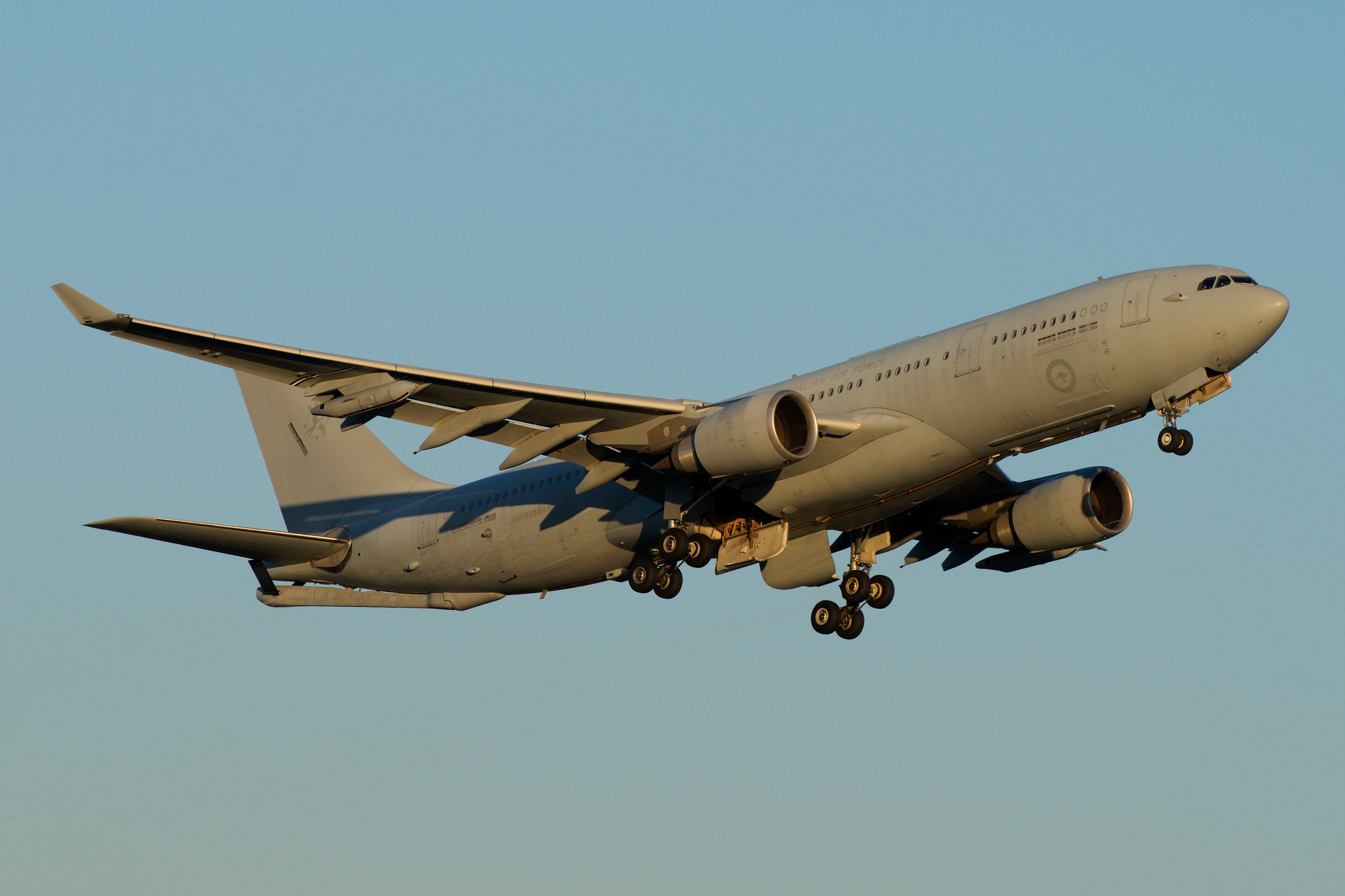 Departing YYZ in wonderful evening light. Carrying Invictus Games participants home.